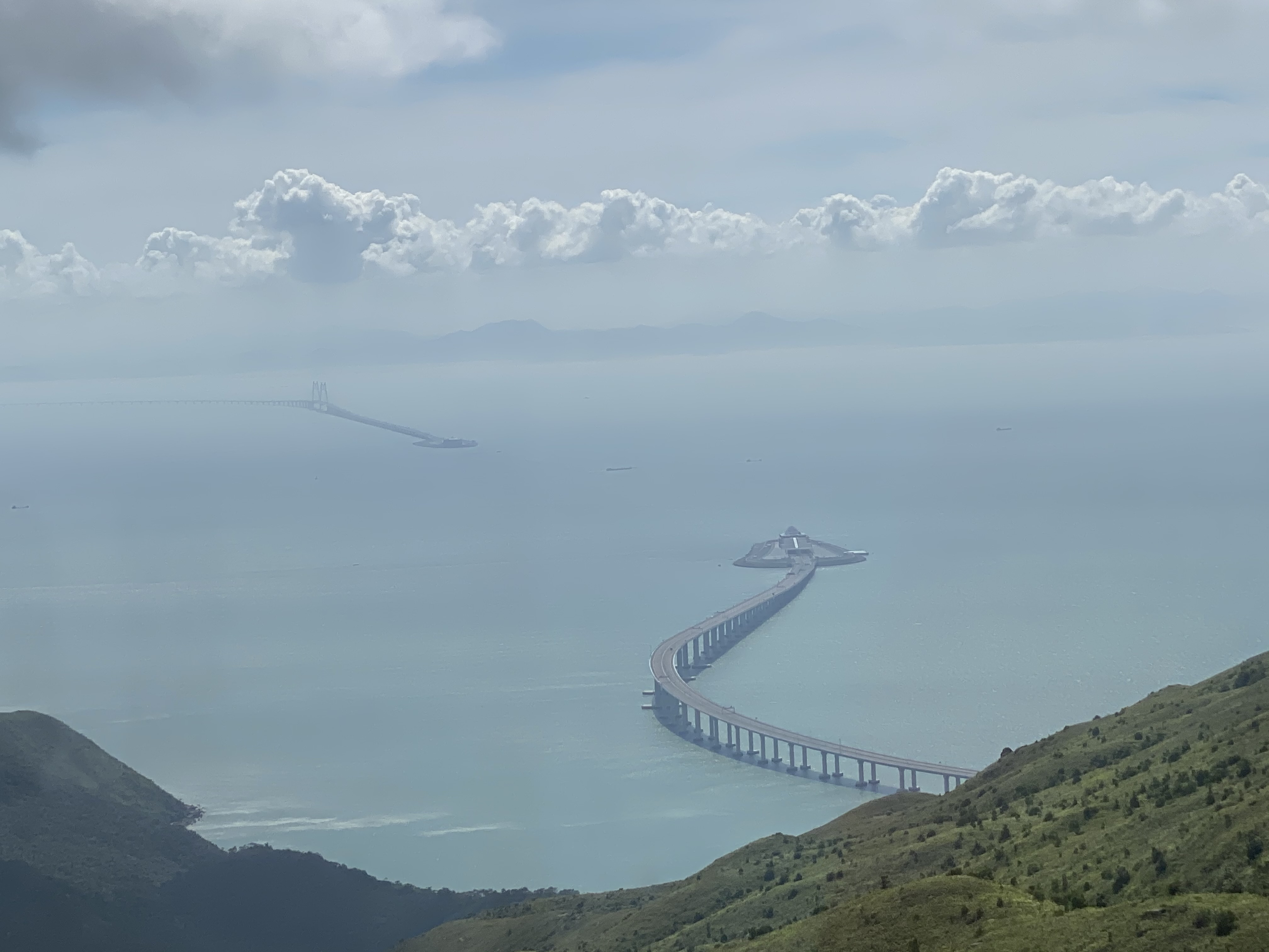 中文（香港）: This photo is taken in Ngong Ping 360.